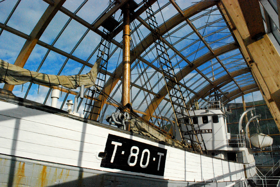 Polstjerna, a historic seal hunter from 1949.